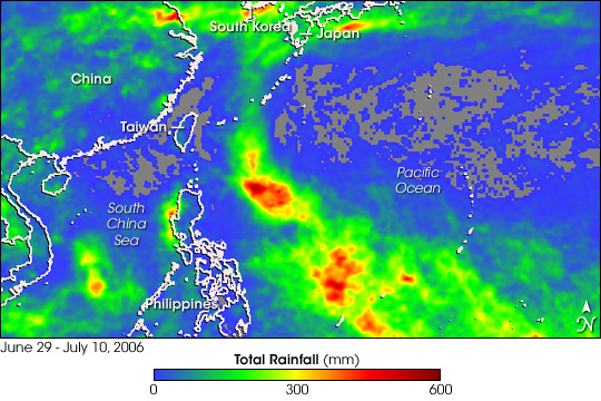 As of July 11, 2006, at least 30 people in China and 5 in Korea had died as a result of flooding and mudslides caused by Typhoon Ewiniar. The storm began as a tropical depression on June 30, 2006, southeast of Palau in the northern West Pacific. Ewiniar tracked generally north-northwestward before turning north to pass east of the Philippines and Taiwan. The storm made landfall in South Korea on July 10. Ewiniar was rated a Category 4 typhoon at its peak, with maximum sustained winds estimated at 240 kilometers per hour (150 miles per hour) while it was east of the Philippines on July 5. Ewiniar then slowly weakened as it passed by the coast of China before striking the Korean Peninsula as a tropical storm. Rainfall totals are shown here for the period June 29 to July 10, 2006, for the western Pacific region. The highest rainfall totals trace out Ewiniar’s path, with maximum amounts around 600 millimeters or more (shown in red). These heavy amounts occurred offshore. The east-west oriented bands of moderate to isolated heavy rainfall (shown in green and red) over the east coast of China and southeast of Japan are associated with another weather system unrelated to Typhoon Ewiniar. That system brought rain to the same area during this period. The rainfall analysis above is from the Multi-satellite Precipitation Analysis, which uses data from NASA’s Tropical Rainfall Measuring Mission (TRMM) satellite to calibrate precipitation estimates. This product was developed by the precipitation research team in the Laboratory for Atmosphere at NASA Goddard Space Flight Center. TRMM is a joint mission between NASA and the Japanese space agency, JAXA.